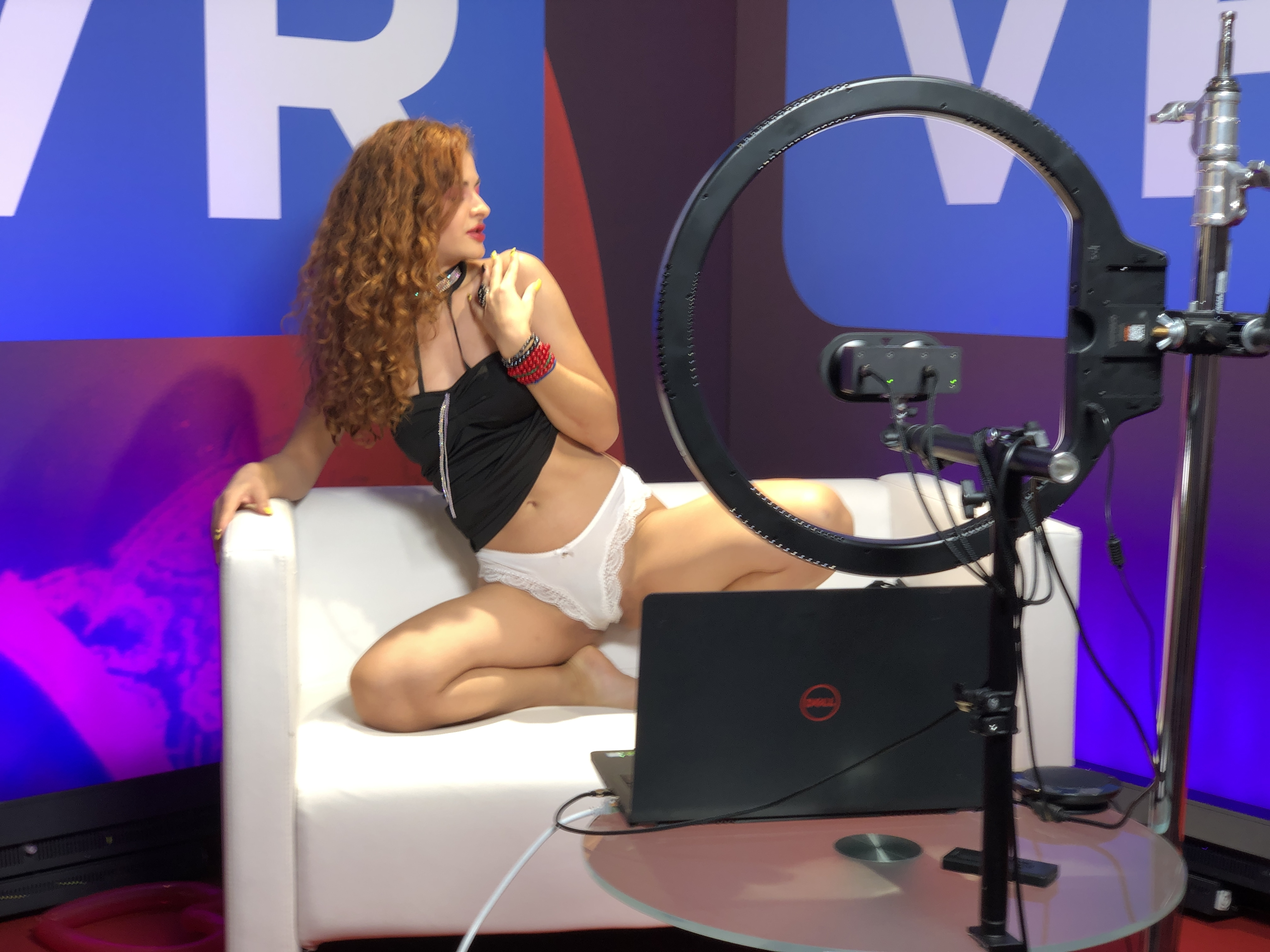 Venus Berlin 2019